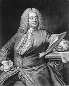 Mezzotint Engraving of George Frideric Handel by John Faber after Thomas Hudson